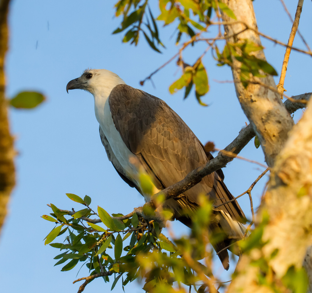 White breasted sea eagle - Fogg Dam, Middle Point - Northern Territory - Australia